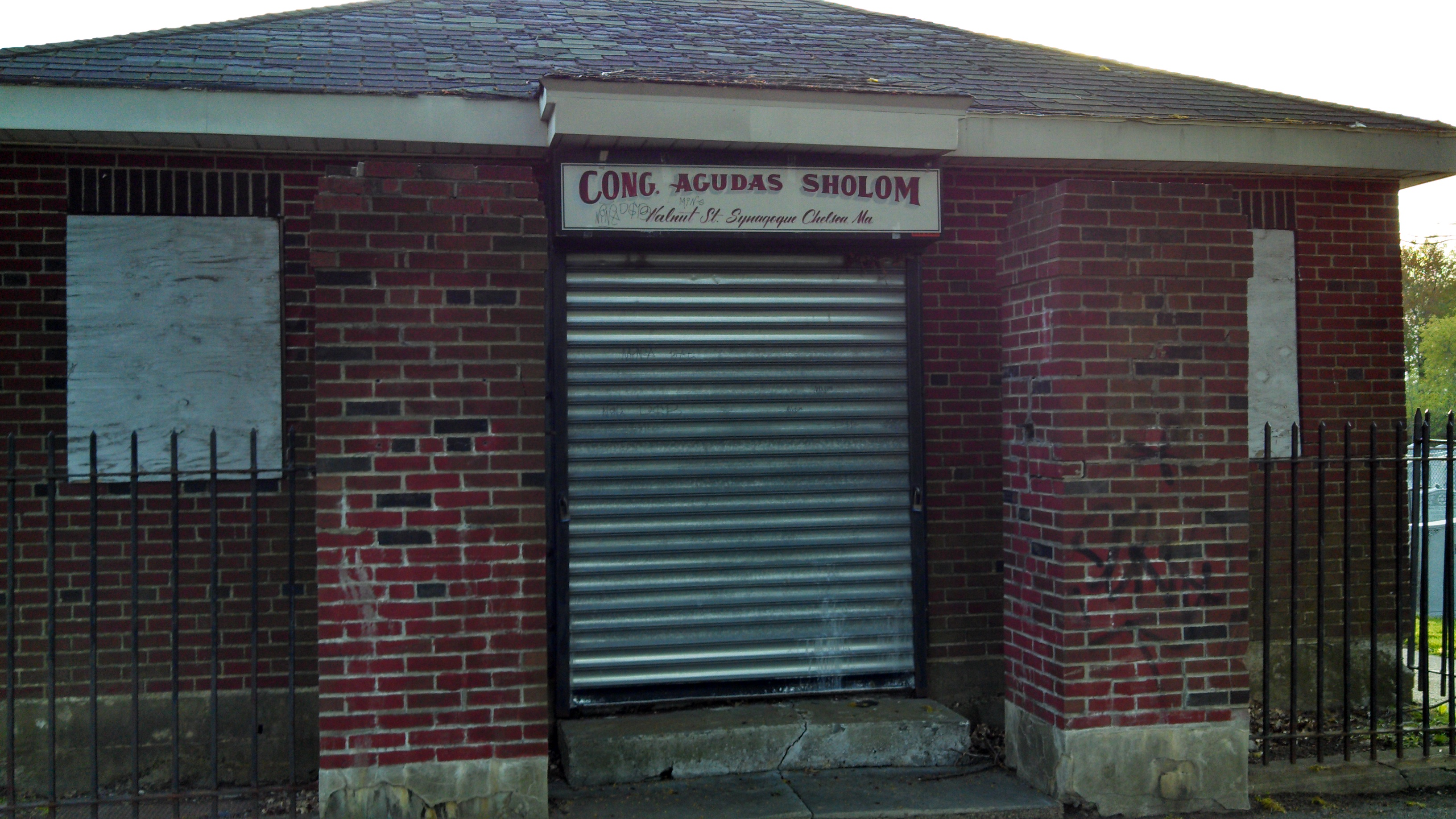 Agudas Sholom chapel at Everett Jewish Cemeteries, 232 Fuller Street in Everett, MA